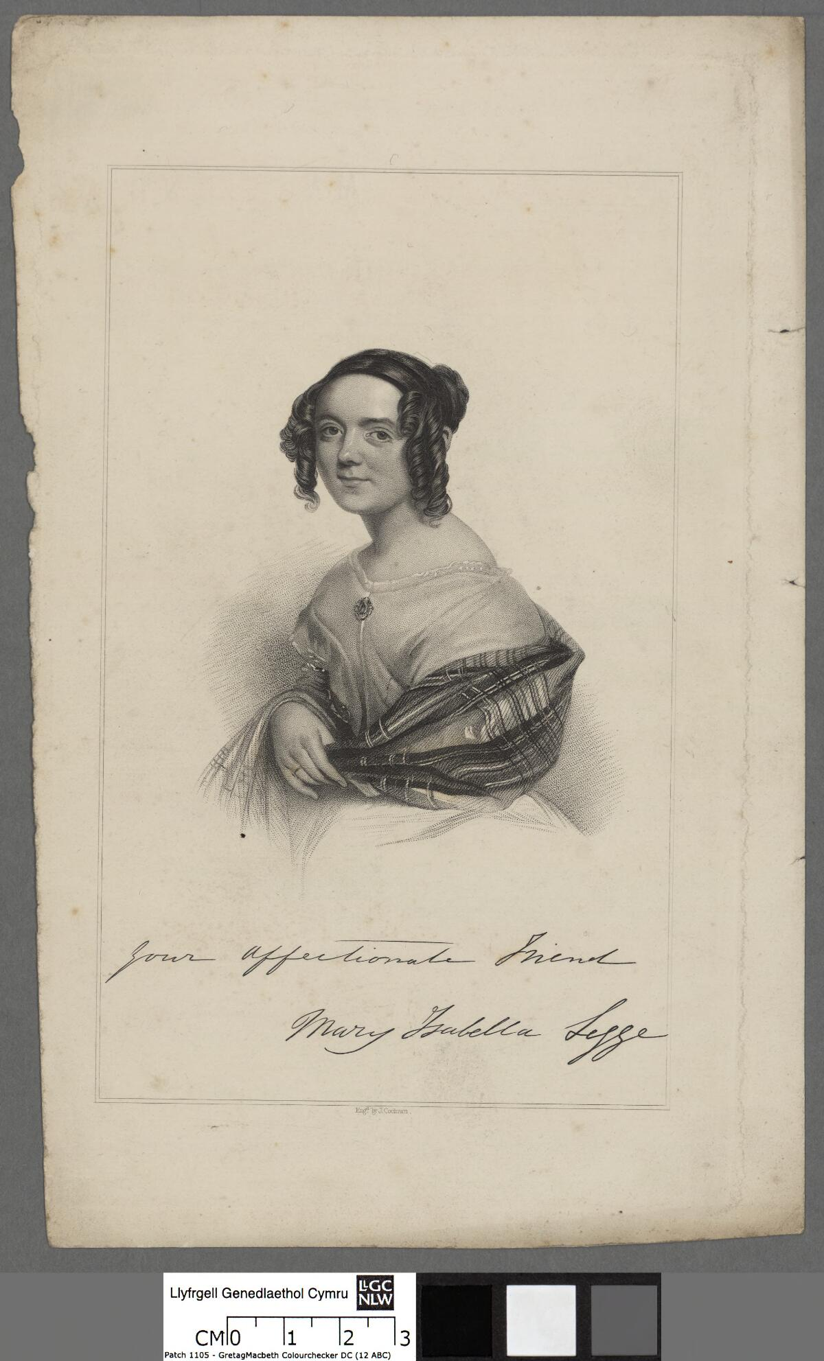 A portrait from the Welsh Portrait Collection at the National Library of Wales. Depicted person: Mary Isabella Legge